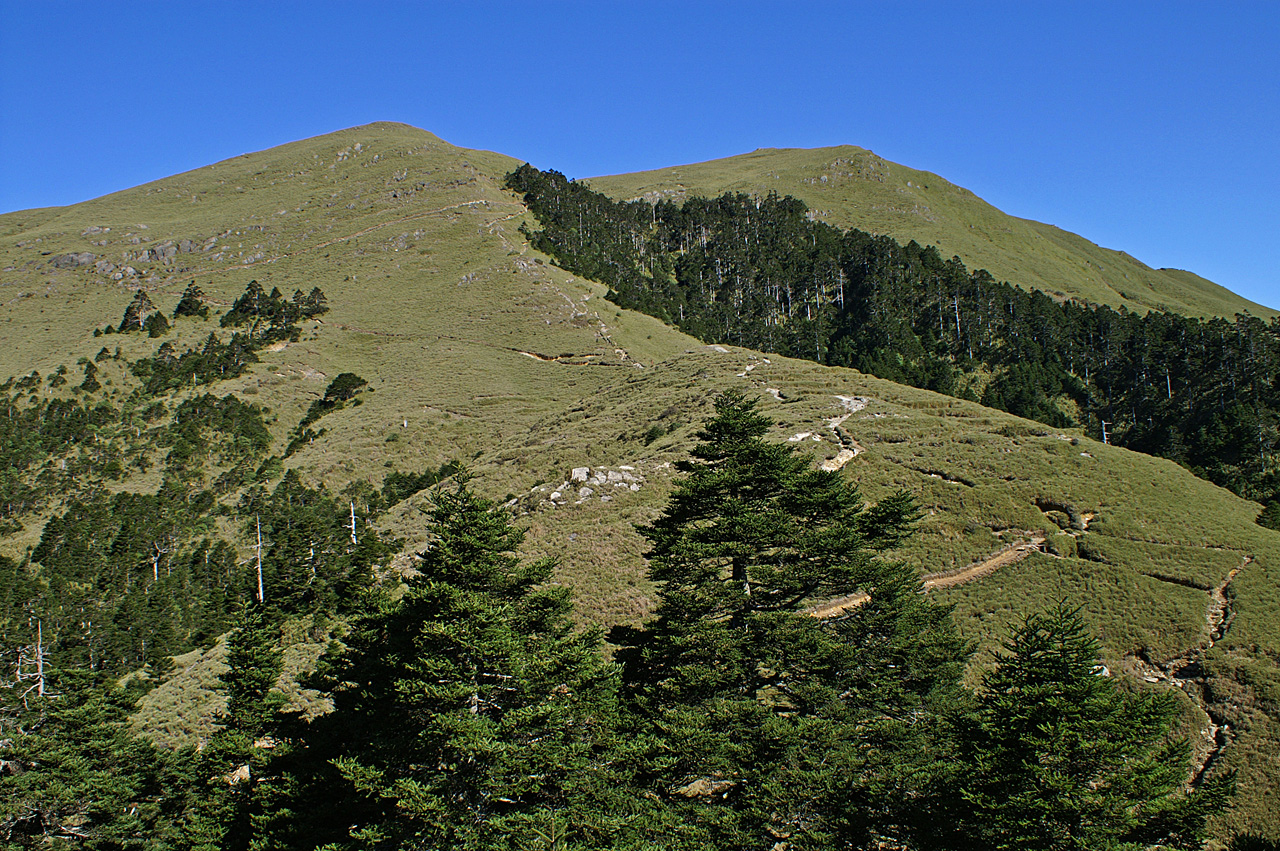 Chi Lai South Peak(奇萊南峰). Trees are Abies kawakamii.